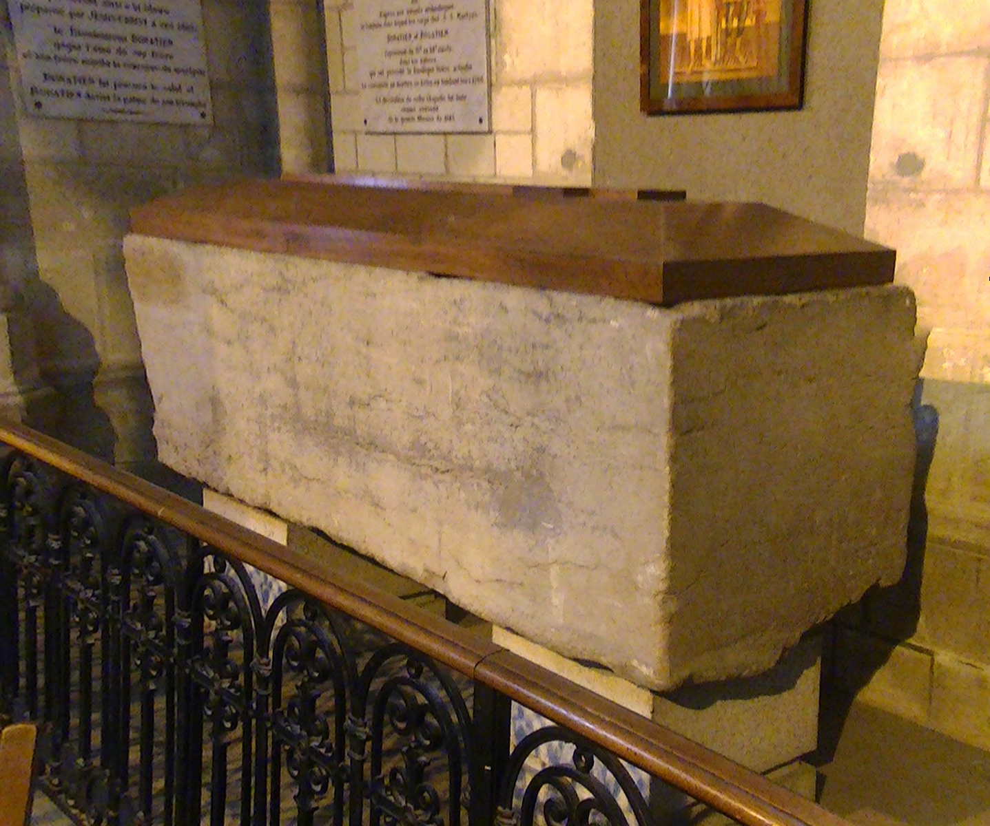 Tomb of Sts. Donatian and Rogatian in the Basilica of Sts. Donatian and Rogatian, Nantes. The tomb is empty, as the relics were transferred to Ostia in the twelfth century.